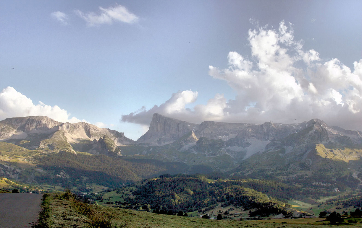 Dévoluy, Hautes-Alpes, Provence-Alpes-Côte-d'Azur, France, EU